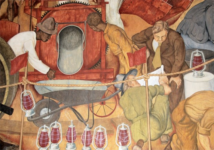 A portion of the frescoes in the Assembly Room, Mutual Building, Darling Street, Cape Town, painted by Le Roux Smith Le Roux 1942